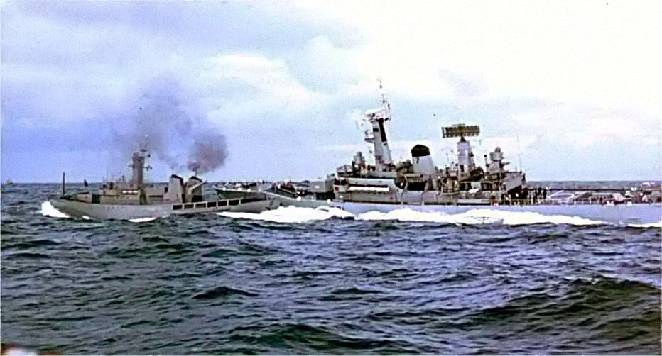 HMS Scylla and Odinn collision